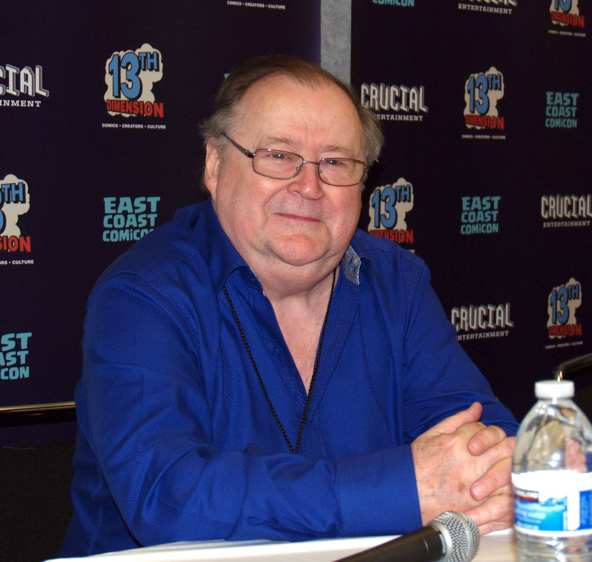 Comics writer Don McGregor shortly before a panel featuring him and artist Rich Buckler at the Meadowlands Exposition Center in Secaucus, New Jersey on April 11, 2015, Day 1 of the 2015 East Coast Comicon. This photo was created by Luigi Novi. It is not in the public domain, and use of this file outside of the licensing terms is a copyright violation.